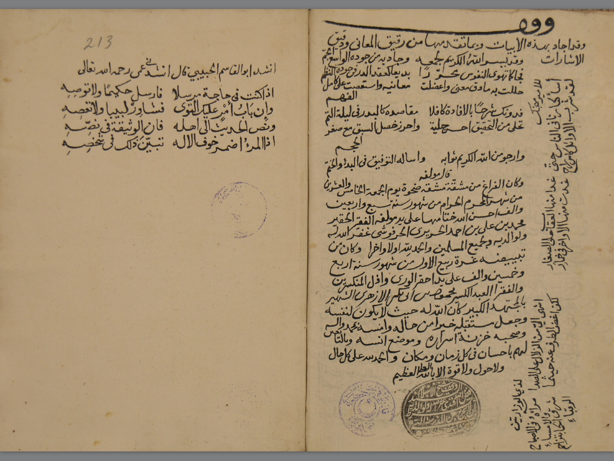 Explanation of the book Alfakhee on Qatr Alnada By Al-Harfushi (the last page)